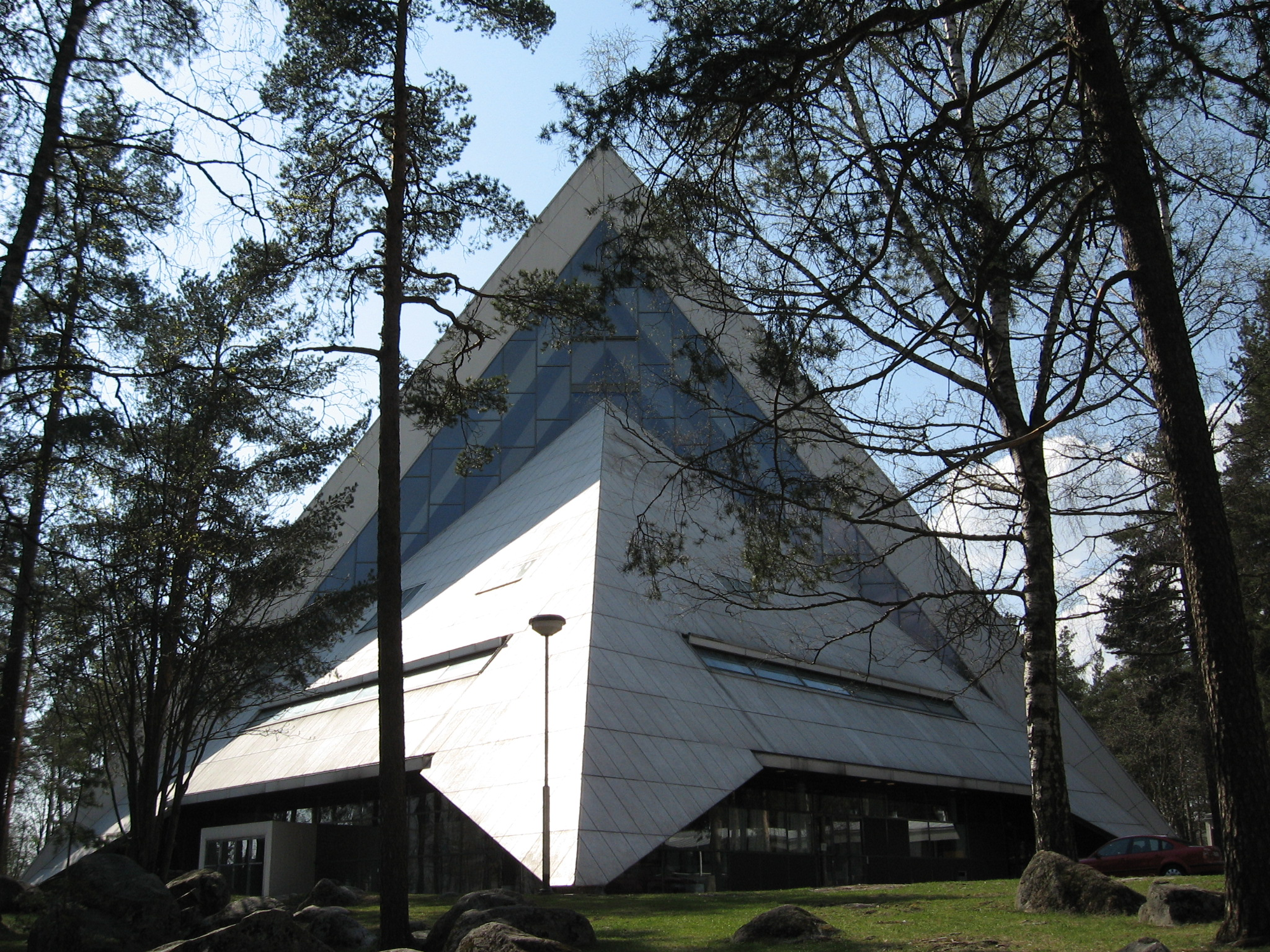 Modernistic church of Hyvinkää, Finland, by architect Aarno Ruusuvuori.